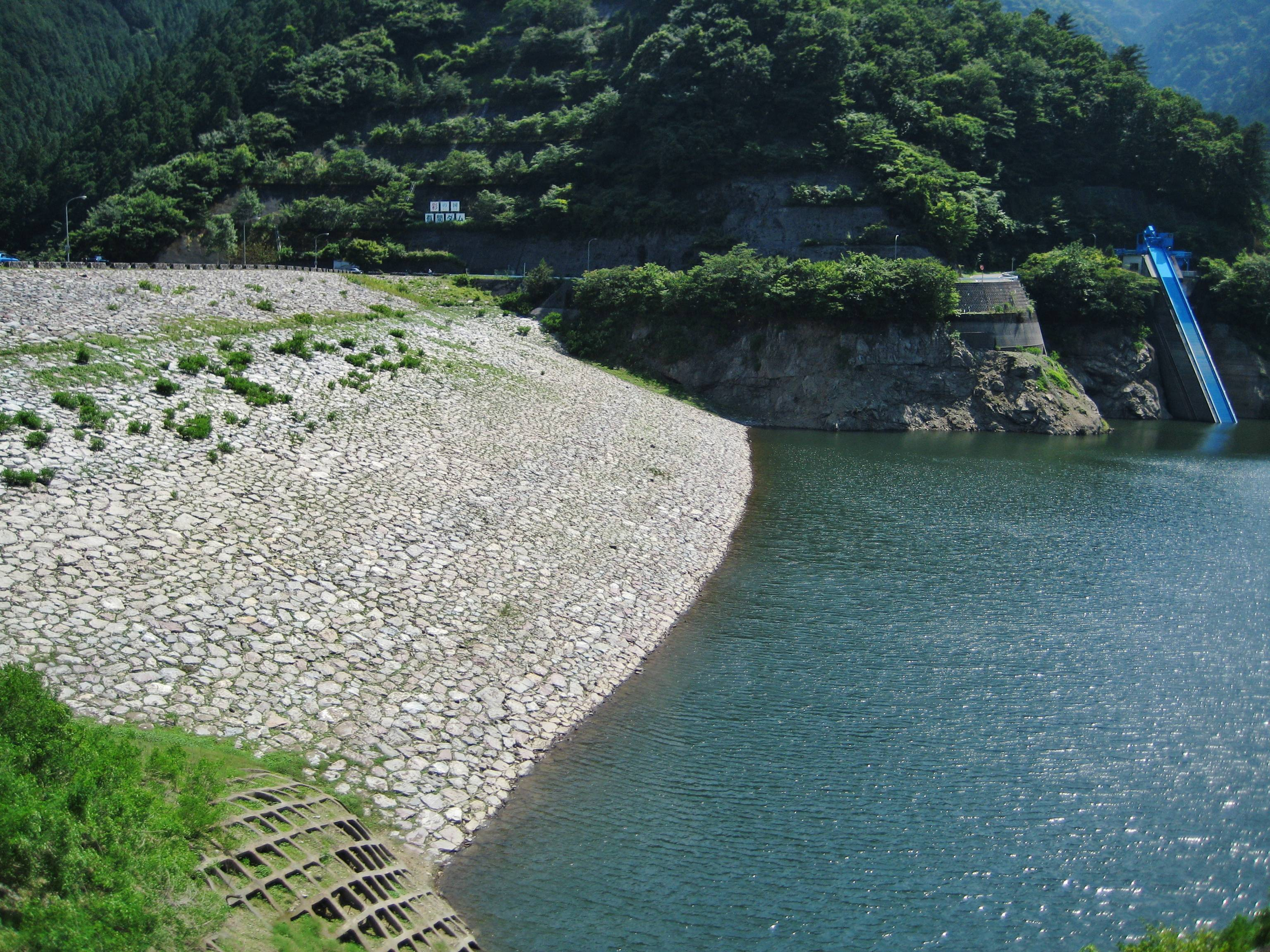 Arima Dam.